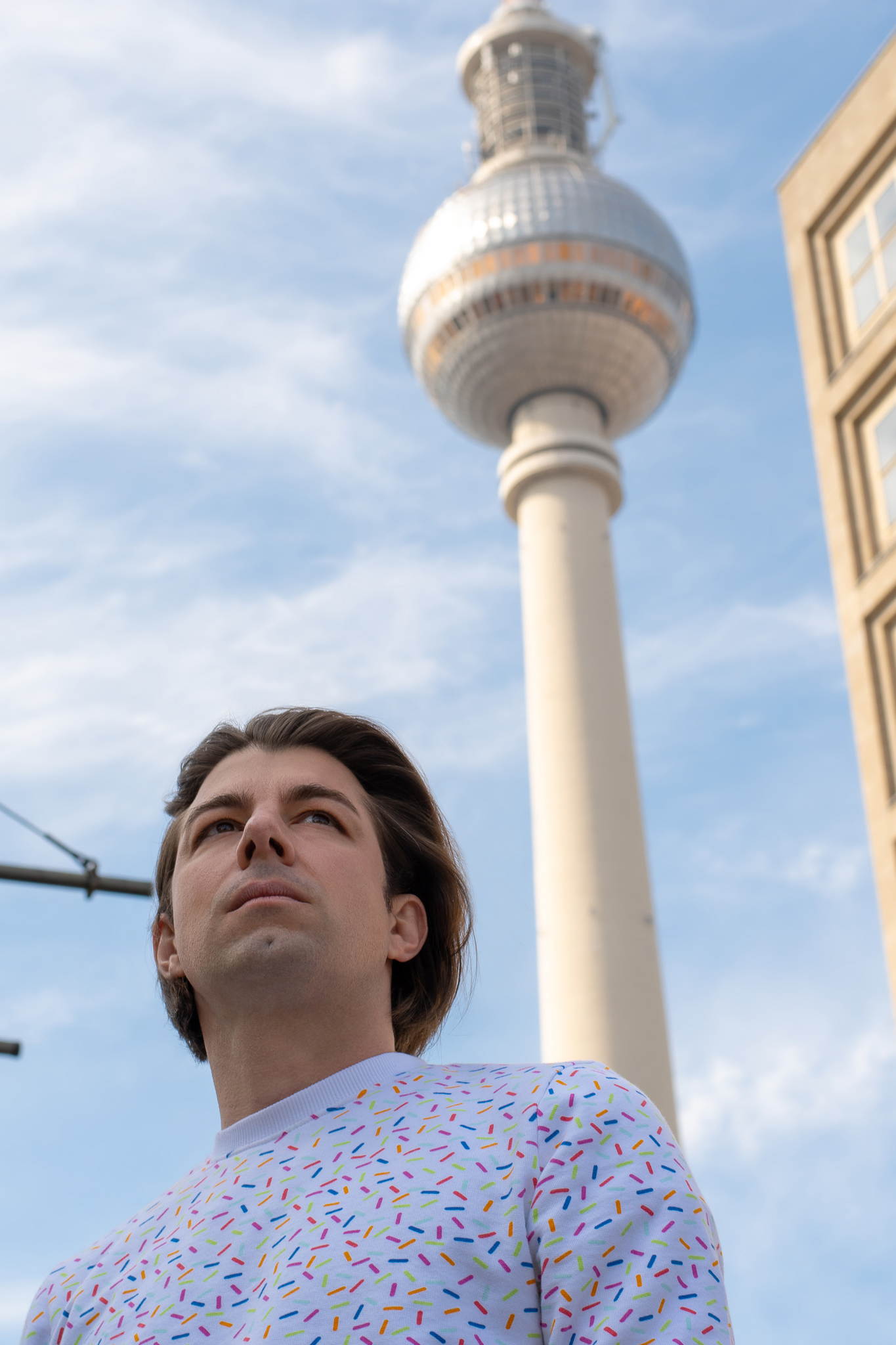 Andreas Kaplan, Professor of Marketing and Social Media / Dean and Rector of ESCP Europe